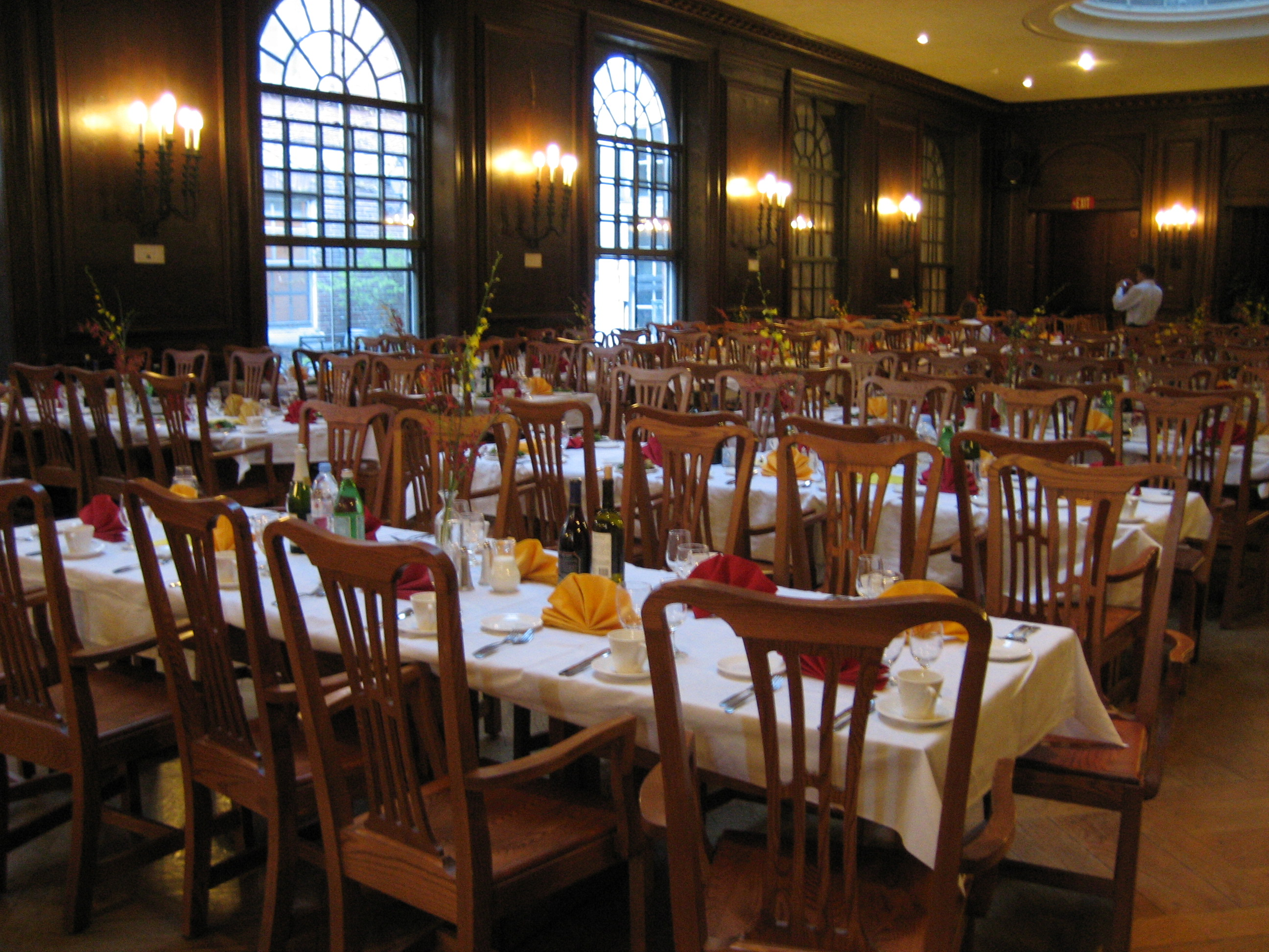 I took this photograph myself and release it to the public domain I took this photograph myself and release it to the public domain